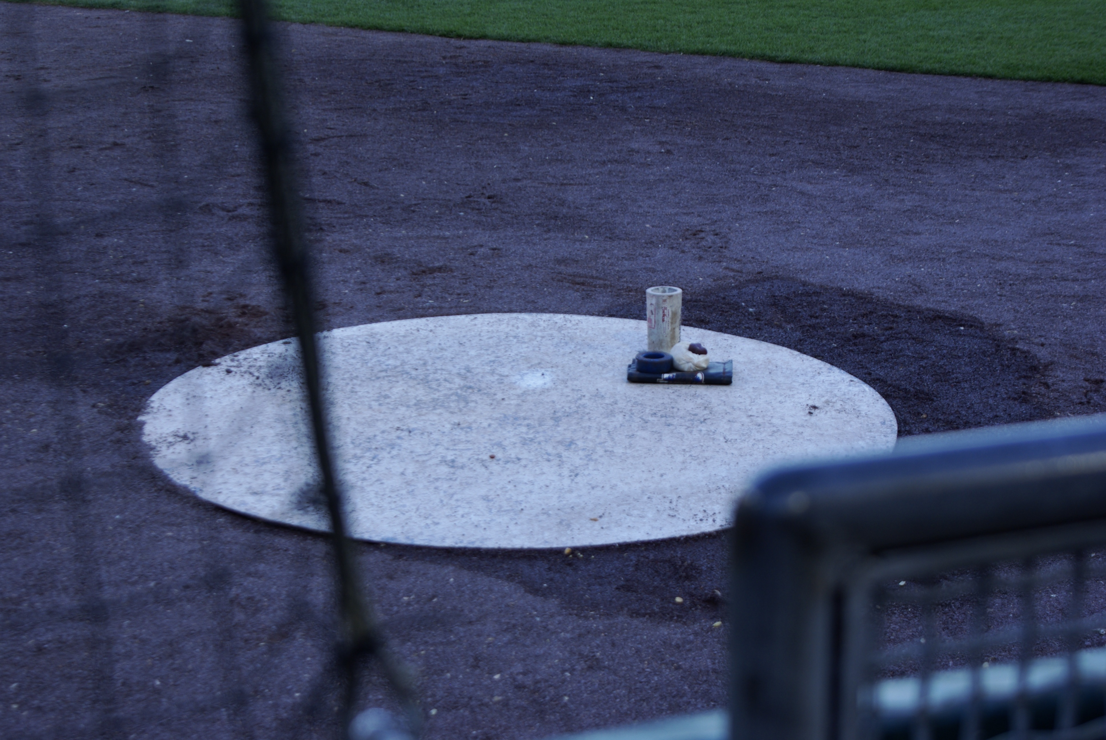 The on-deck circle at Coca-Cola Field in Buffalo, New York